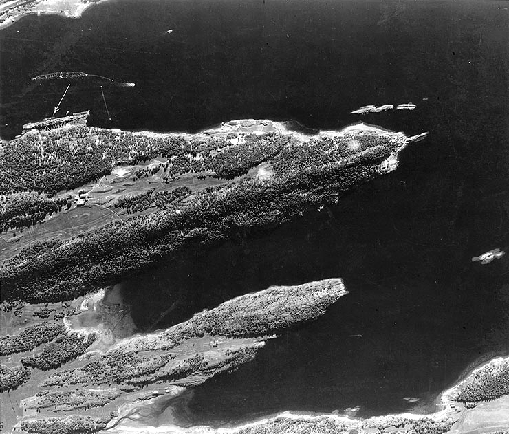 The German light cruiser Köln moored to the shore in the Fætten Fjord, about 30 KM ENE of Trondheim, Norway, 19 July 1942. Note rafts and netting used to camouflage the ship, and anti-torpedo booms moored to protect her from attacks from abeam and astern. Booms abeam have been folded to similate a ship. The southern side of the fjord is just beyond the top of the image.